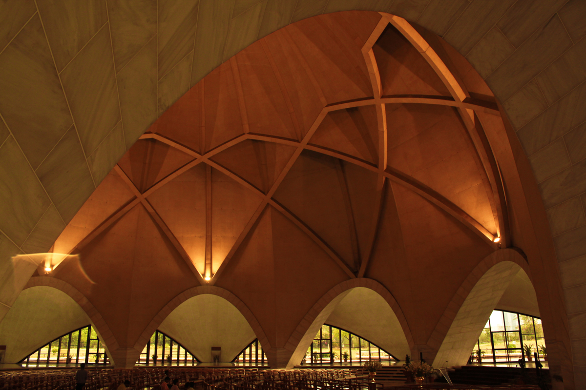 Interior of Lotus temple